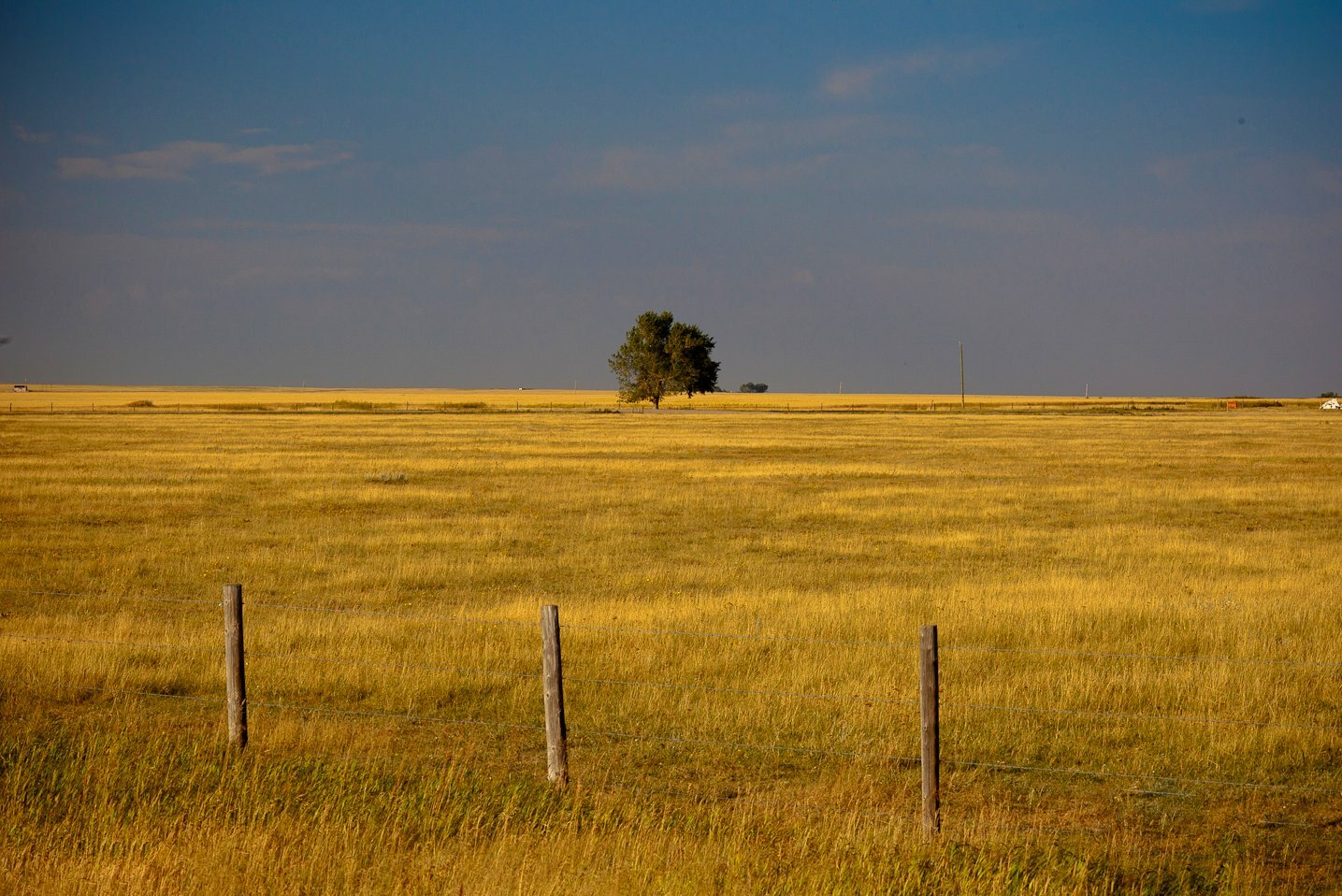 Flat prairie farmlands exist for miles and miles in Alberta before encountering the jagged peaks of the Canadian Rockies. This was taken outside of Calgary.